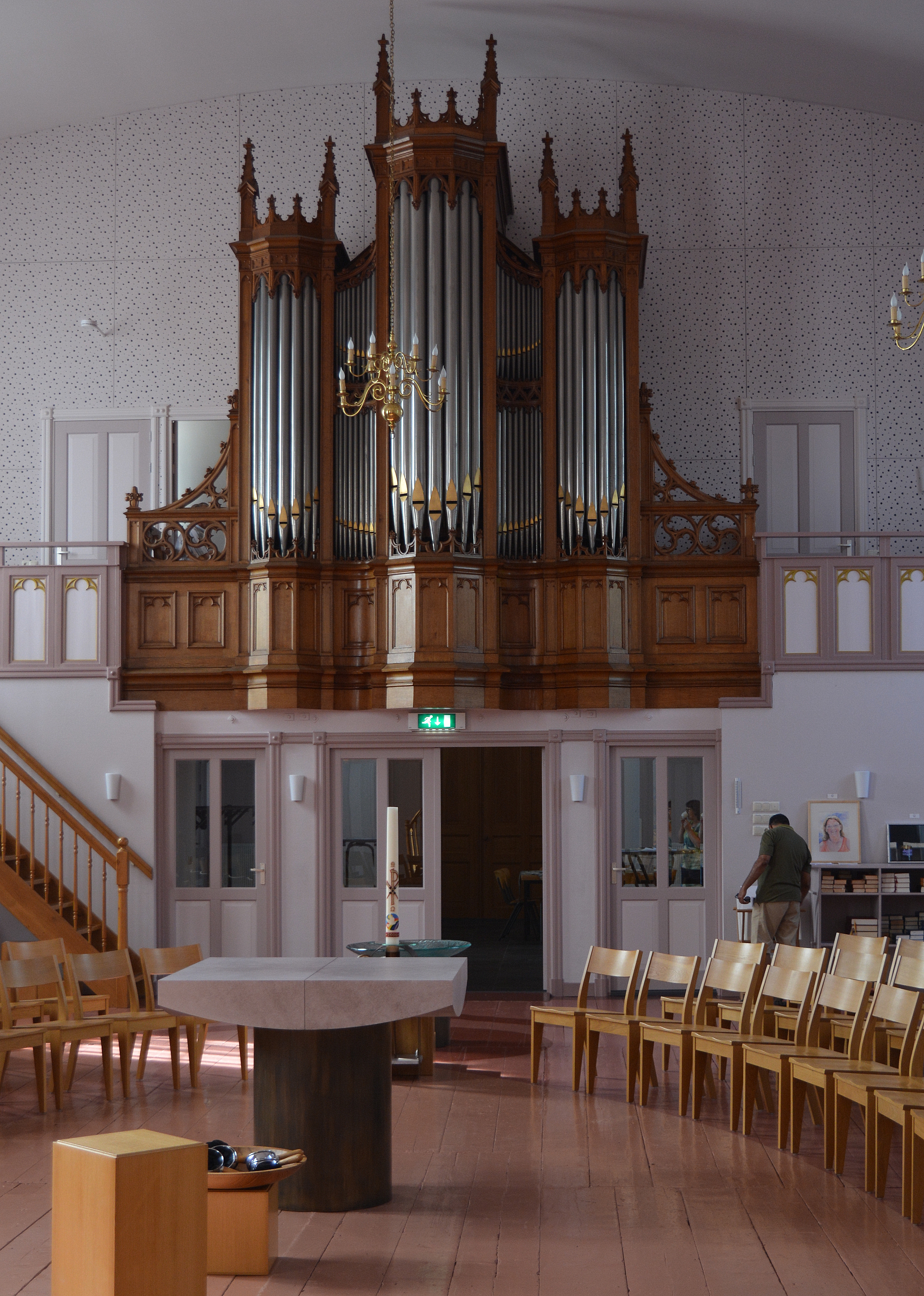 Tzummarum, reformed church, organ